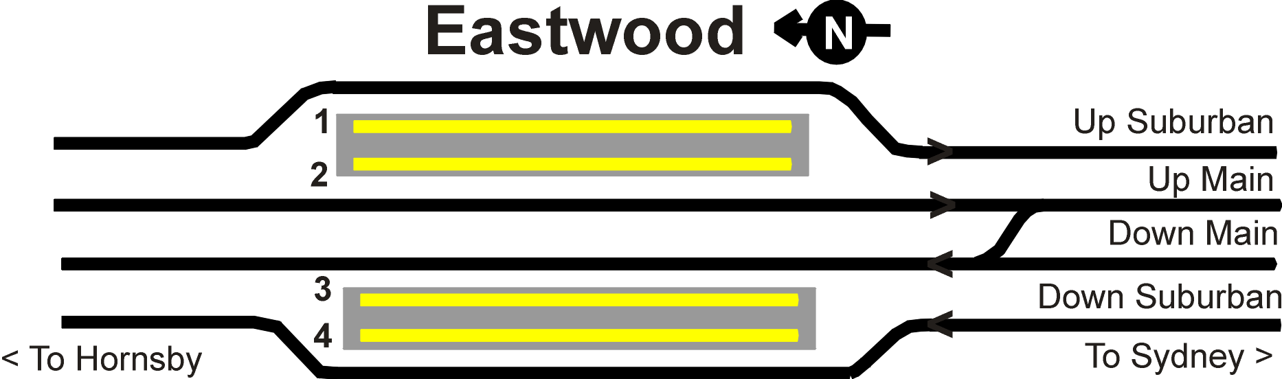 Track layout at Eastwood railway station